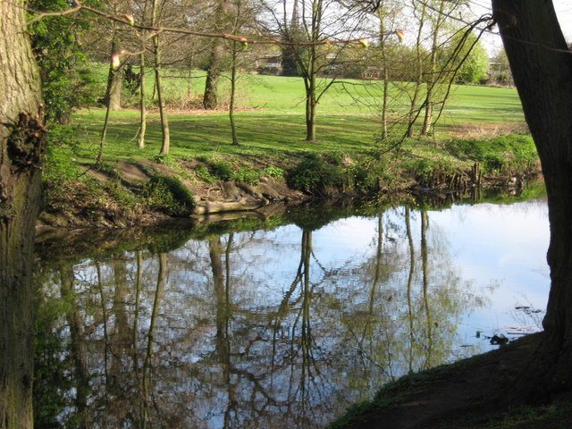 River Skerne Flowing through South Park Darlington to join the River Tees a few miles to the south